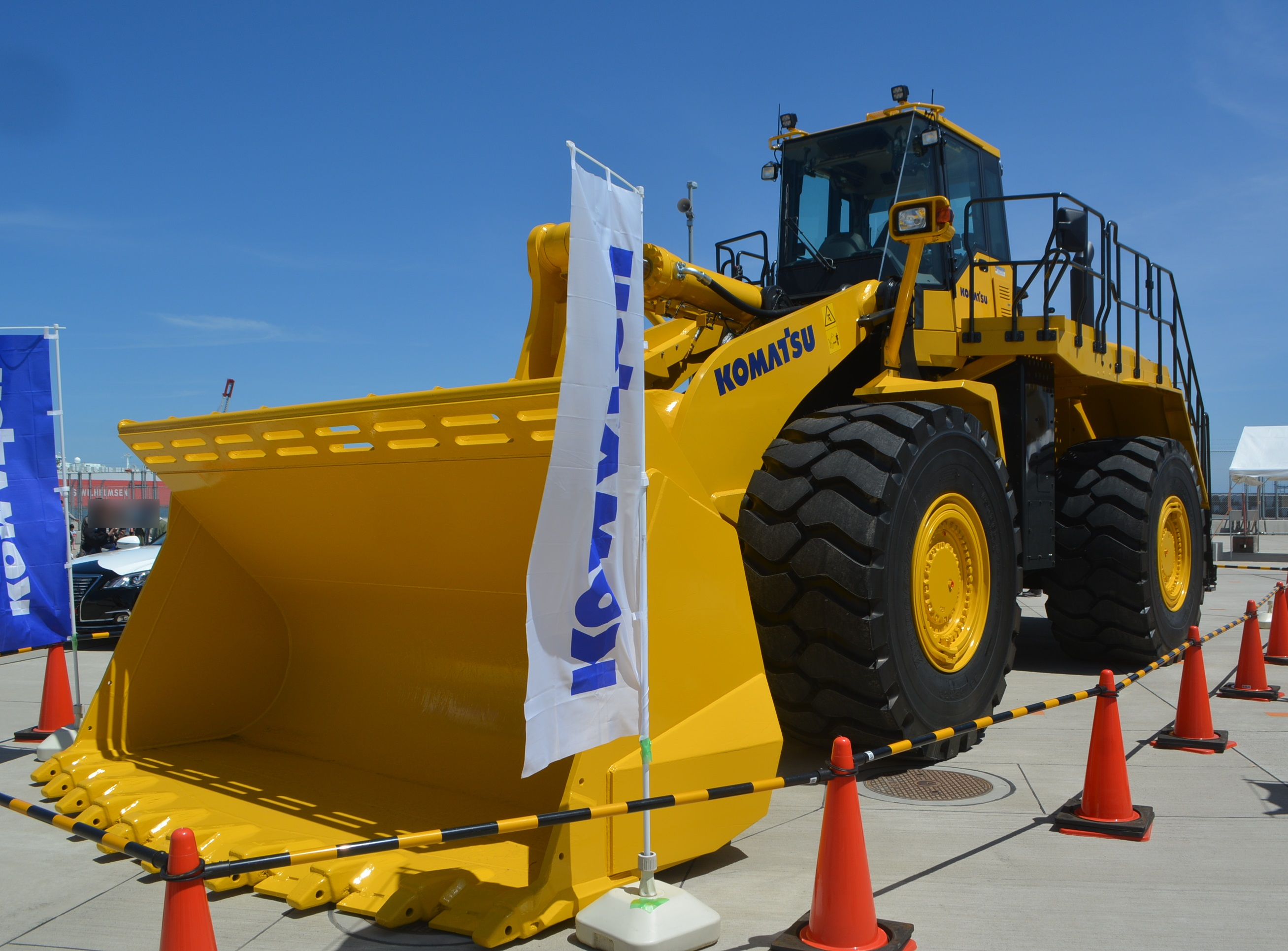 Komatsu Wheel Loader WA600-6,Hitachinaka city,Japan